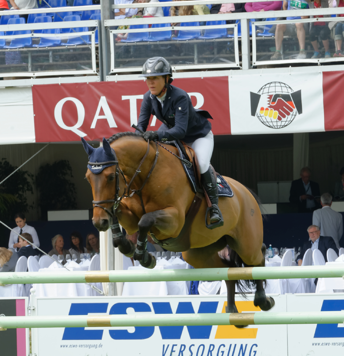 CSIYH* int. Springprüfung nach Strafpunkten und Zeit Internationales Pfingstturnier Wiesbaden 2015 The making of this document was supported by the Community-Budget of Wikimedia Germany.